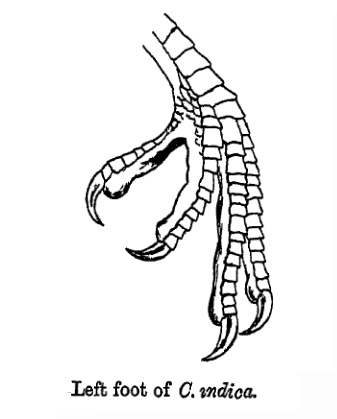 Foot of Coracias benghalensis (Indian Roller)